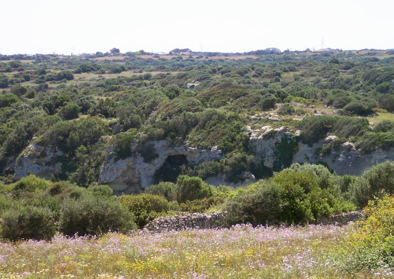 Minorca – Barranc d'Algendar.